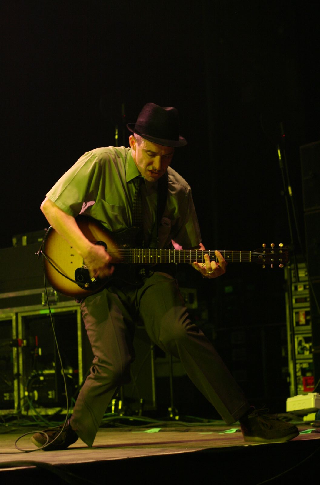 Adam Horovitz from Beastie Boys